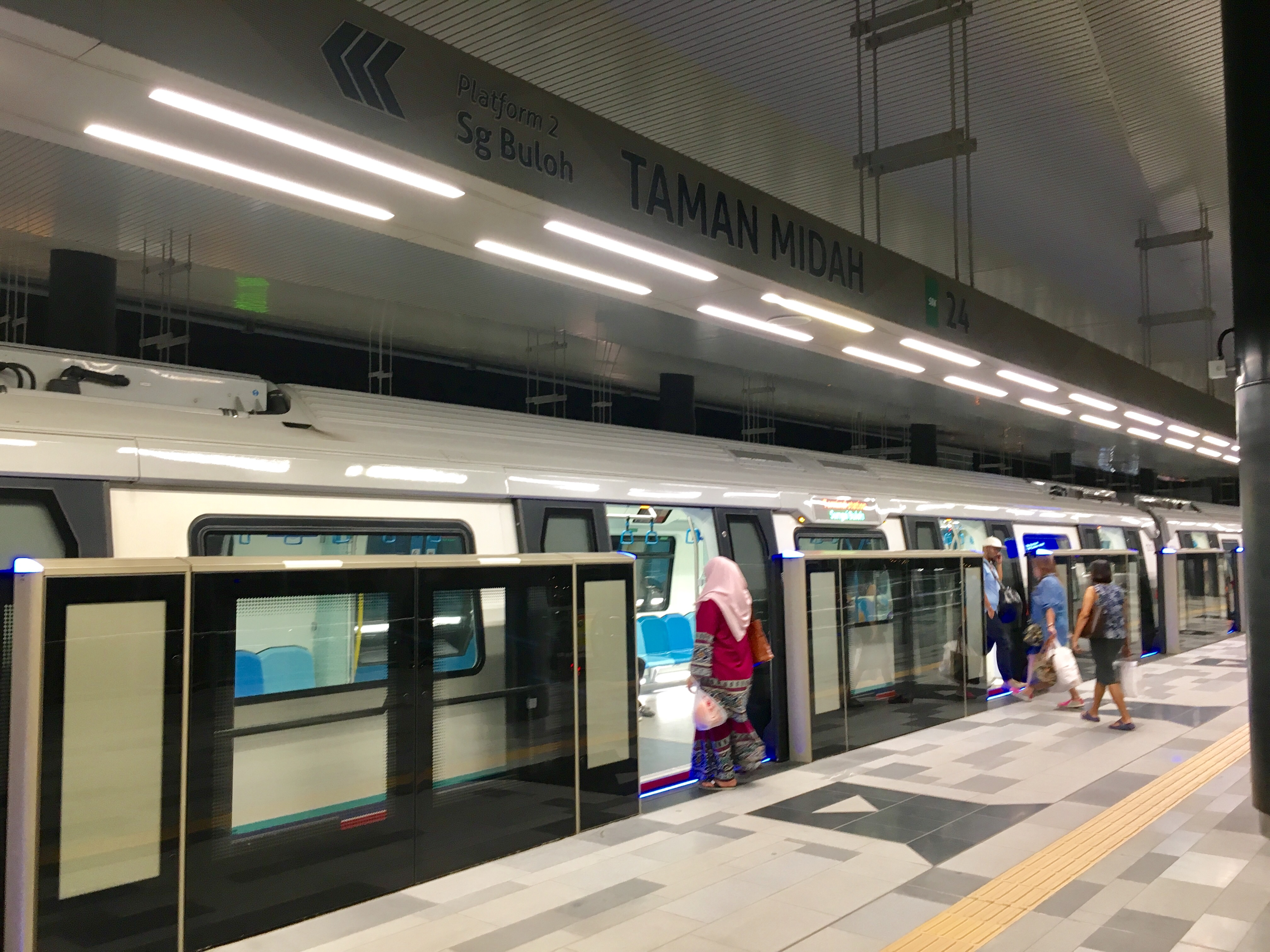 Platform view of the Taman Midah MRT Station